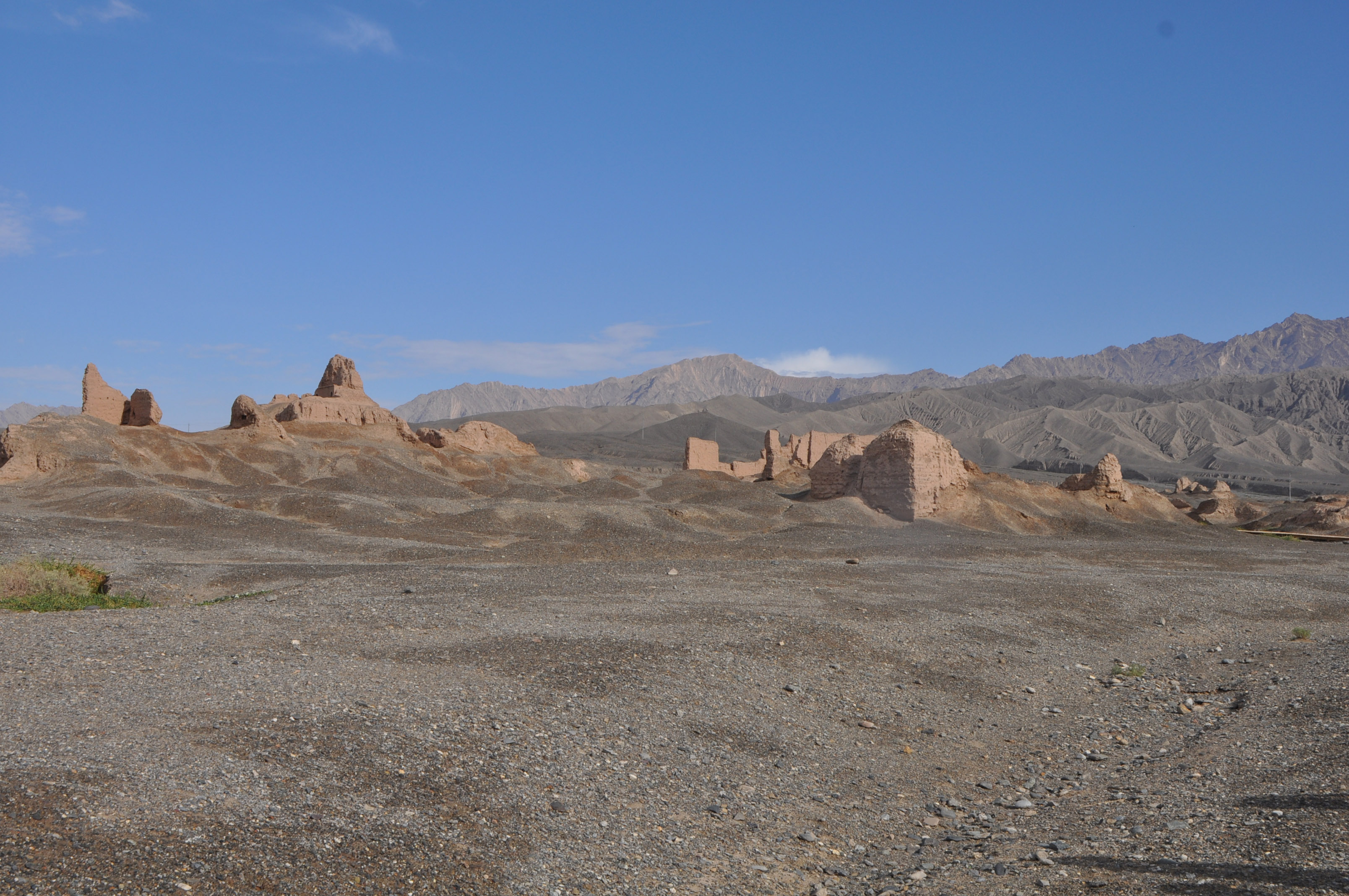 Subashi Buddhist Temple Ruins - West Area, Kuqa, Xinjiang, China